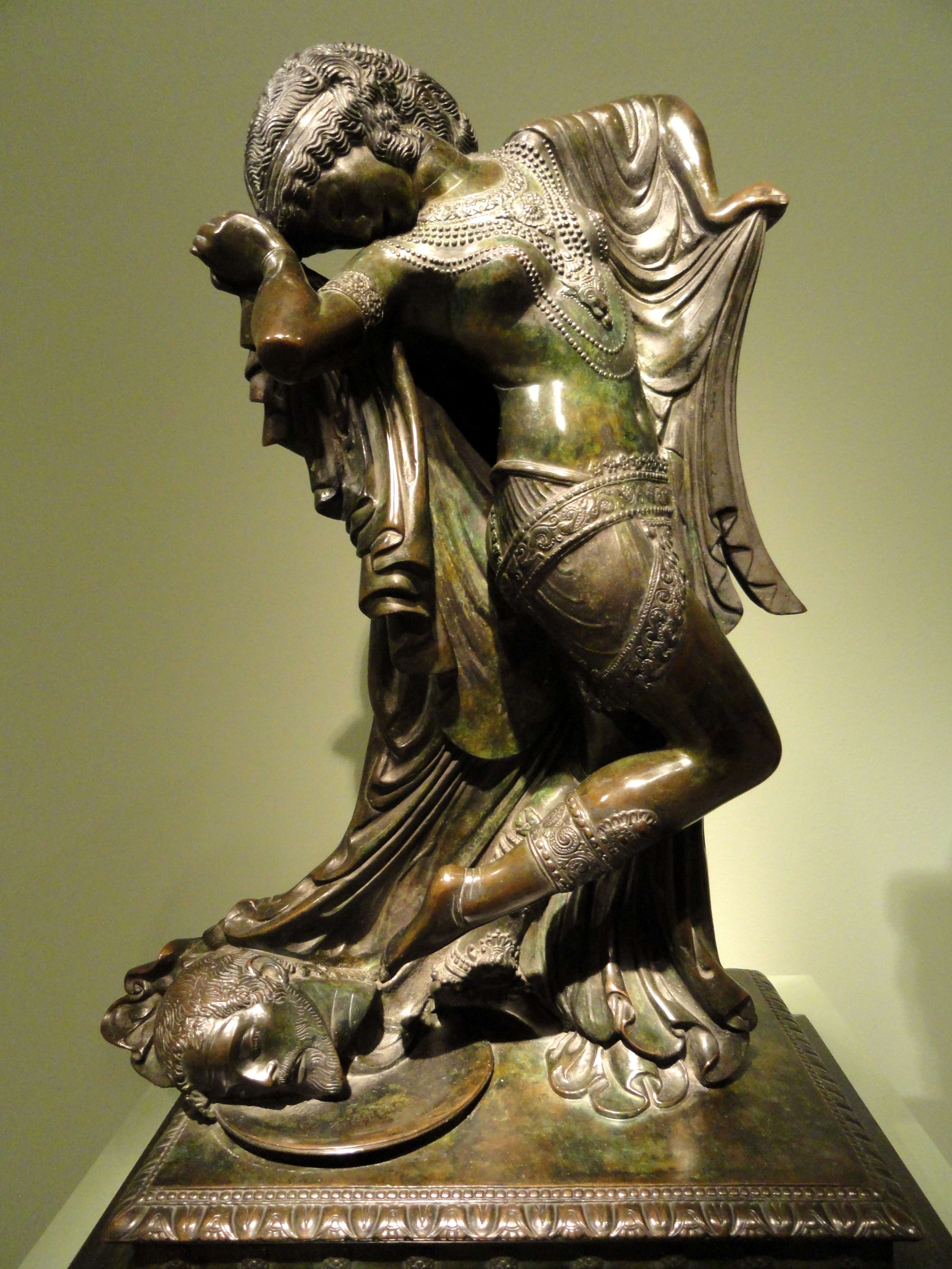 Salome by Paul Manship, 1915. Exhibited in the National Portrait Gallery, Washington, DC, USA. Photography was permitted in the museum.